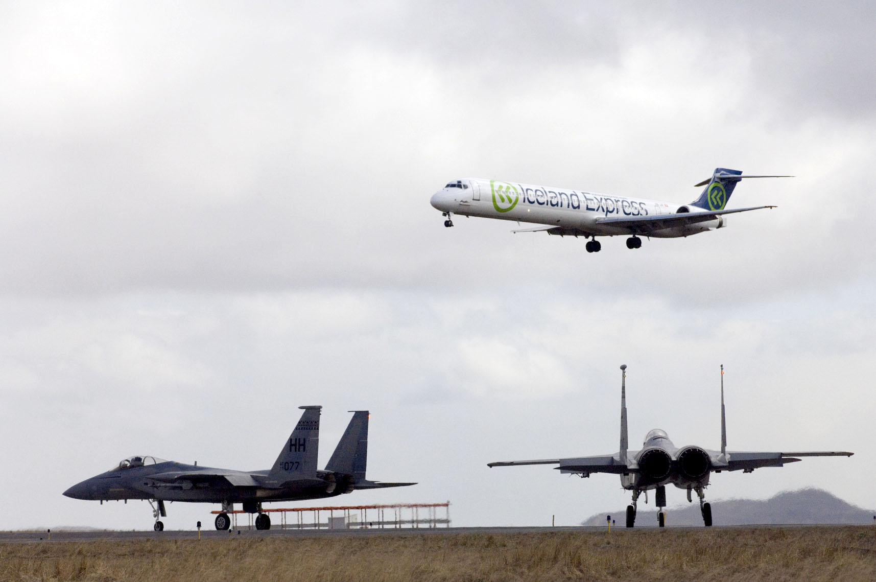 An Icleand Express McDonnell Douglas MD-90 approaches Keflavik airport, as two U.S. Air Force McDonnell Douglas F-15A-18-MC Eagle fighters (s/n 77-0074, 77-0077) assigned to the 199th Fighter Squadron, 154th Wing, Hawaii Air National Guard, taxi in the foreground, on 22 May 2006.